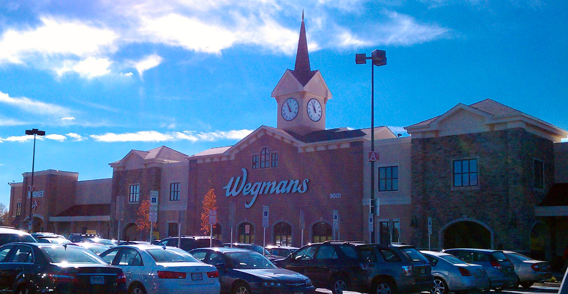 A modern Wegmans superstore located in Lanham, Maryland. This newest Wegmans location is the 77th store in the U.S. and only the 2nd store in the state of Maryland.